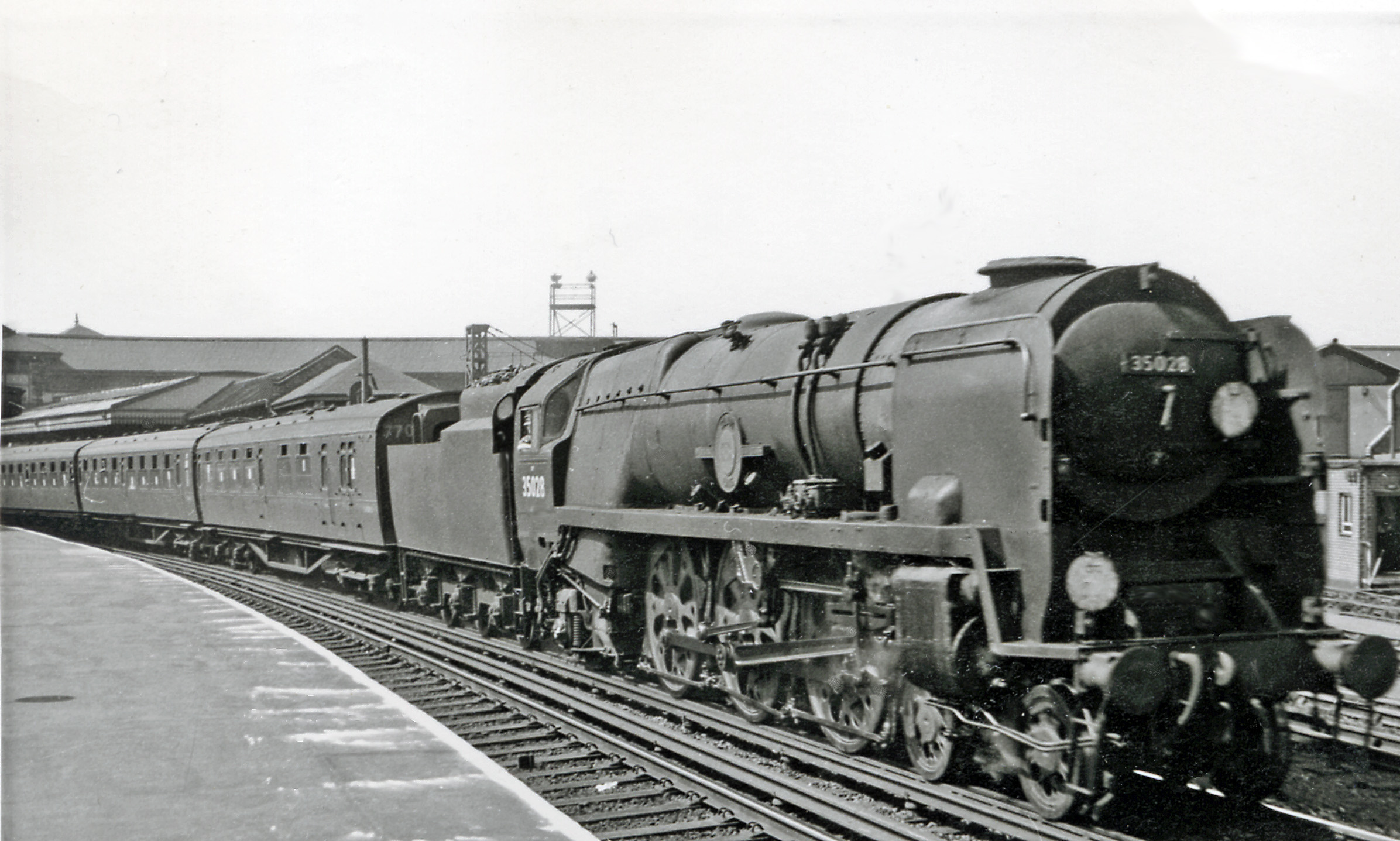 SR Bulleid Pacific 'Clan Line' on Up Special at Clapham Junction. View SW, away from London: ex-LSW Waterloo to the West main line. SR rebuilt Bulleid 'Merchant Navy' Pacific No. 35028 'Clan Line' in its last full year brings an Up Special (? empty stock') through Clapham Junction. It was built 12/48, rebuilt 10/59 and withdrawn 7/67, but preserved and remains in active operation by the Merchant Navy Locomotive Preservation Society, based st Stewarts Lane Depot.